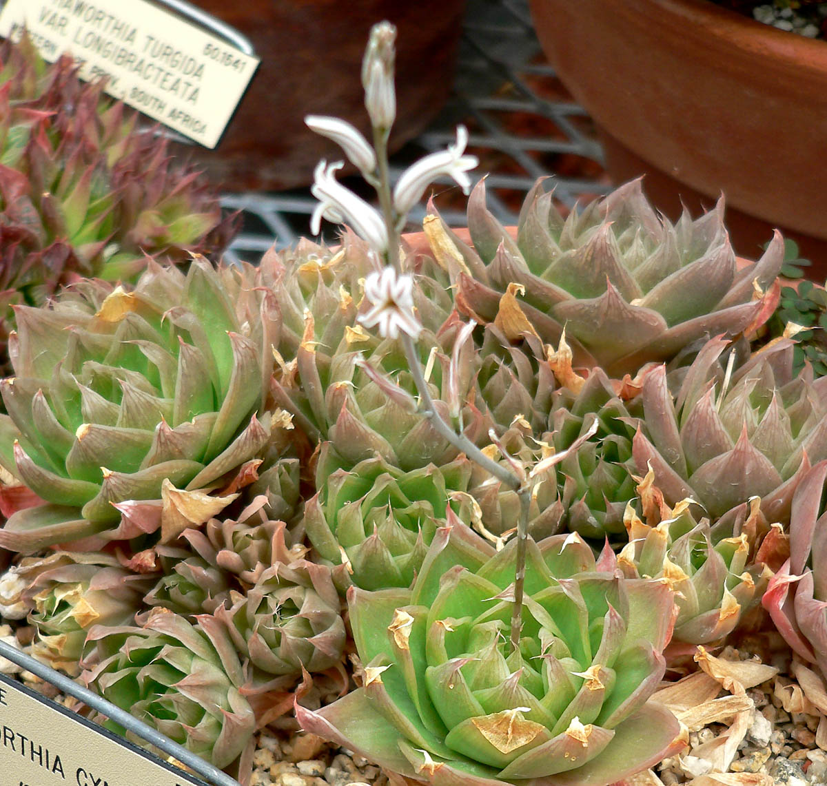 Photo of Haworthia cymbiformis at the University of California Botanical Garden